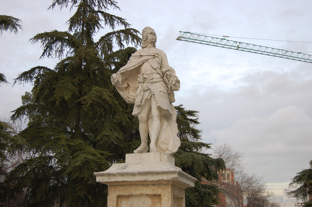 Statue of Fernando VI - King of Spain